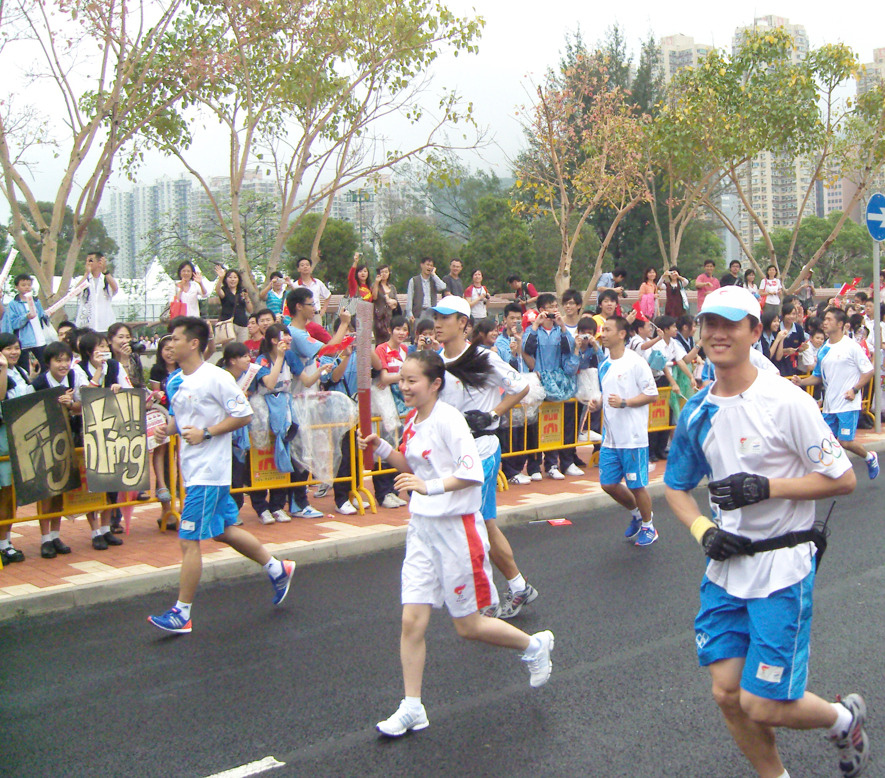 2008 Summer Olympics Torch in Shatin, Hong Kong.